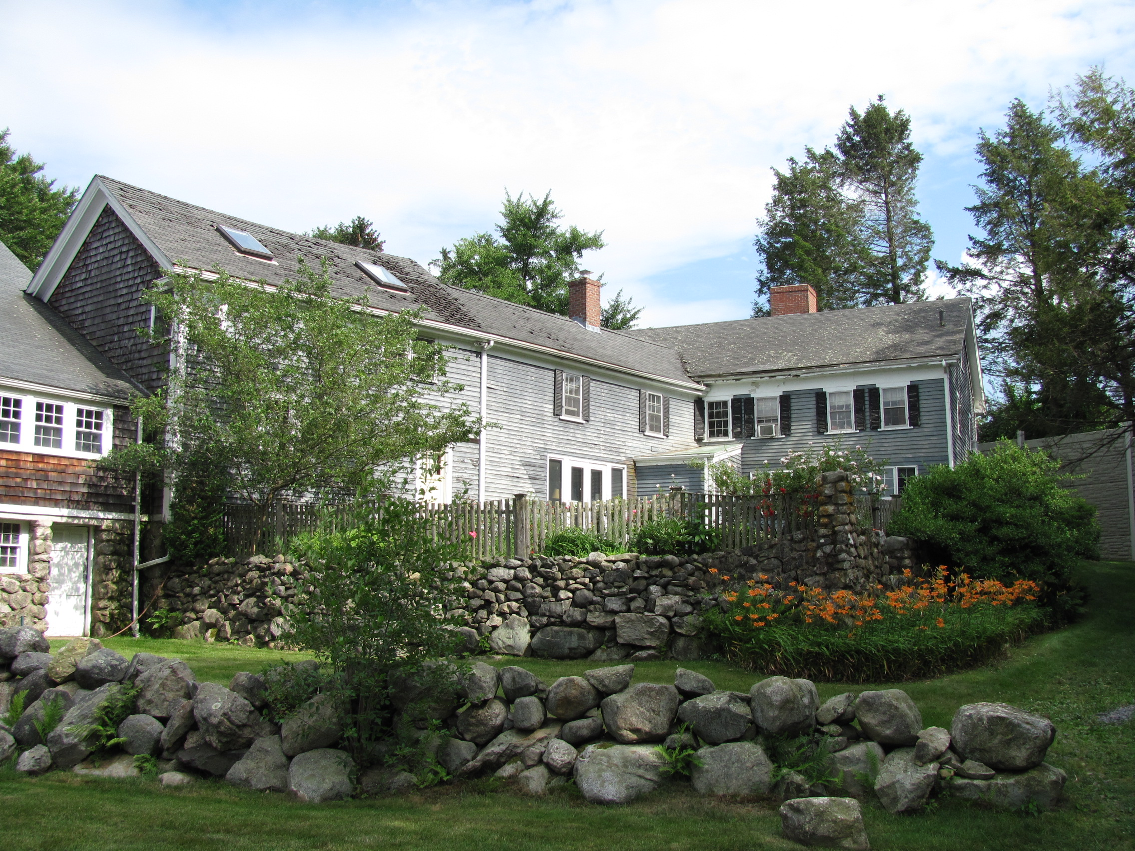 North view of the Hoar Homestead, Lincoln Massachusetts - also known as Hoar Tavern, now known as Hobbs Brook Farm